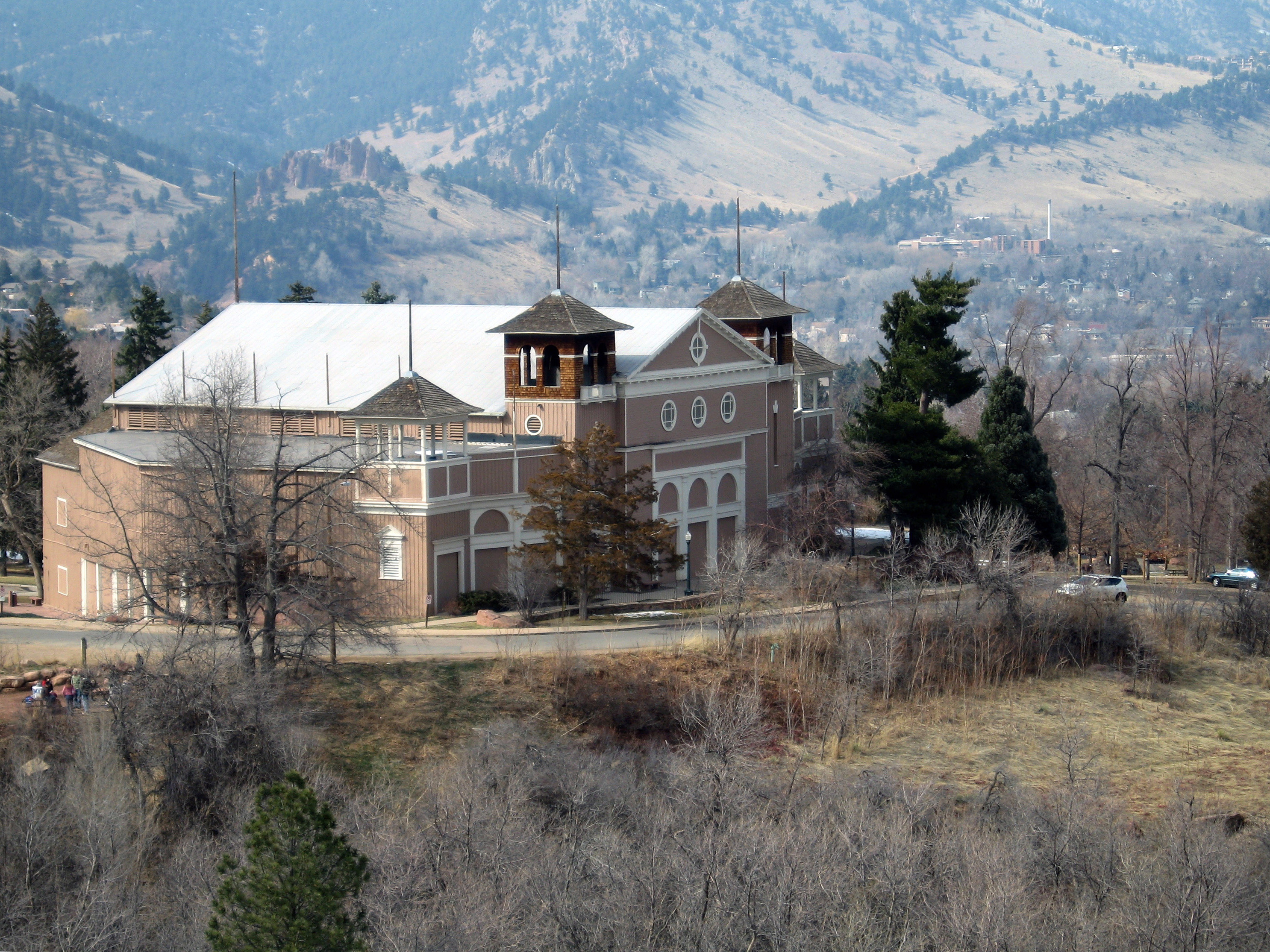 Colorado Chautauqua Park's auditorium in Boulder.